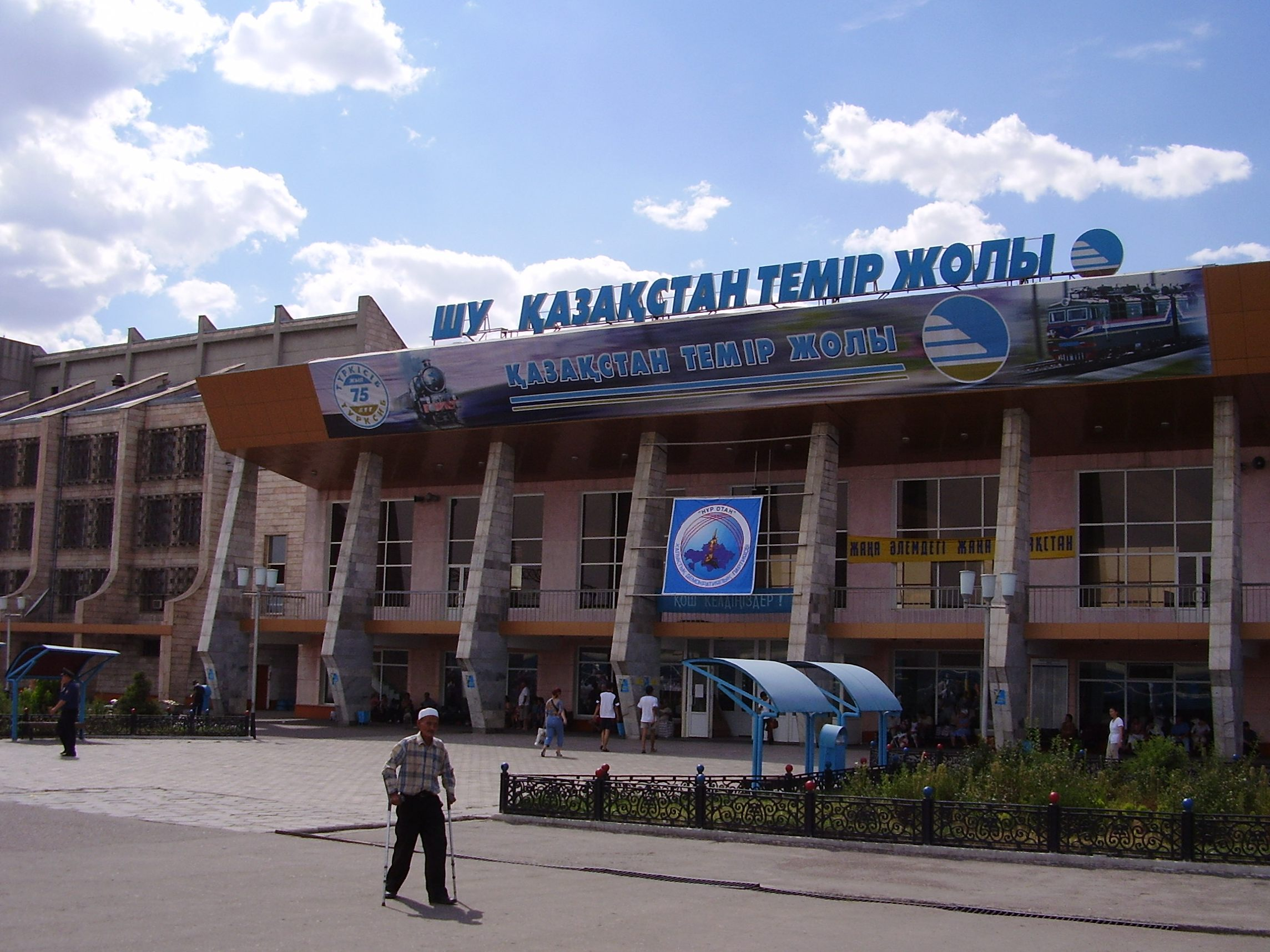 Railway station of the city of Shu, Zhambyl Province of Kazakhstan.